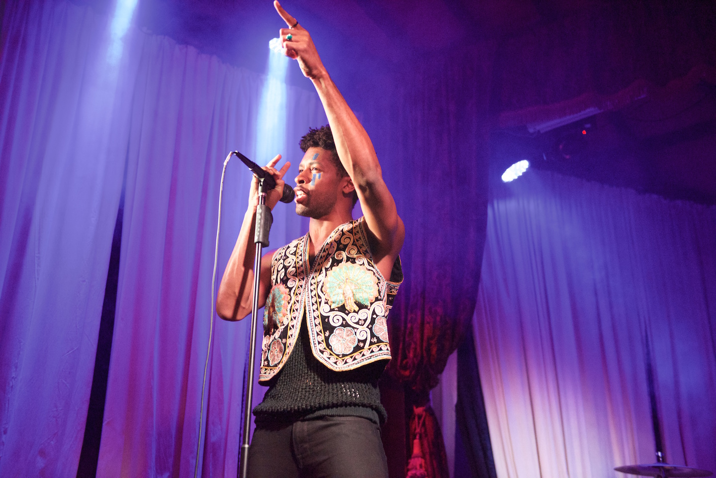 Locke performing at Club Moscow in Los Angeles